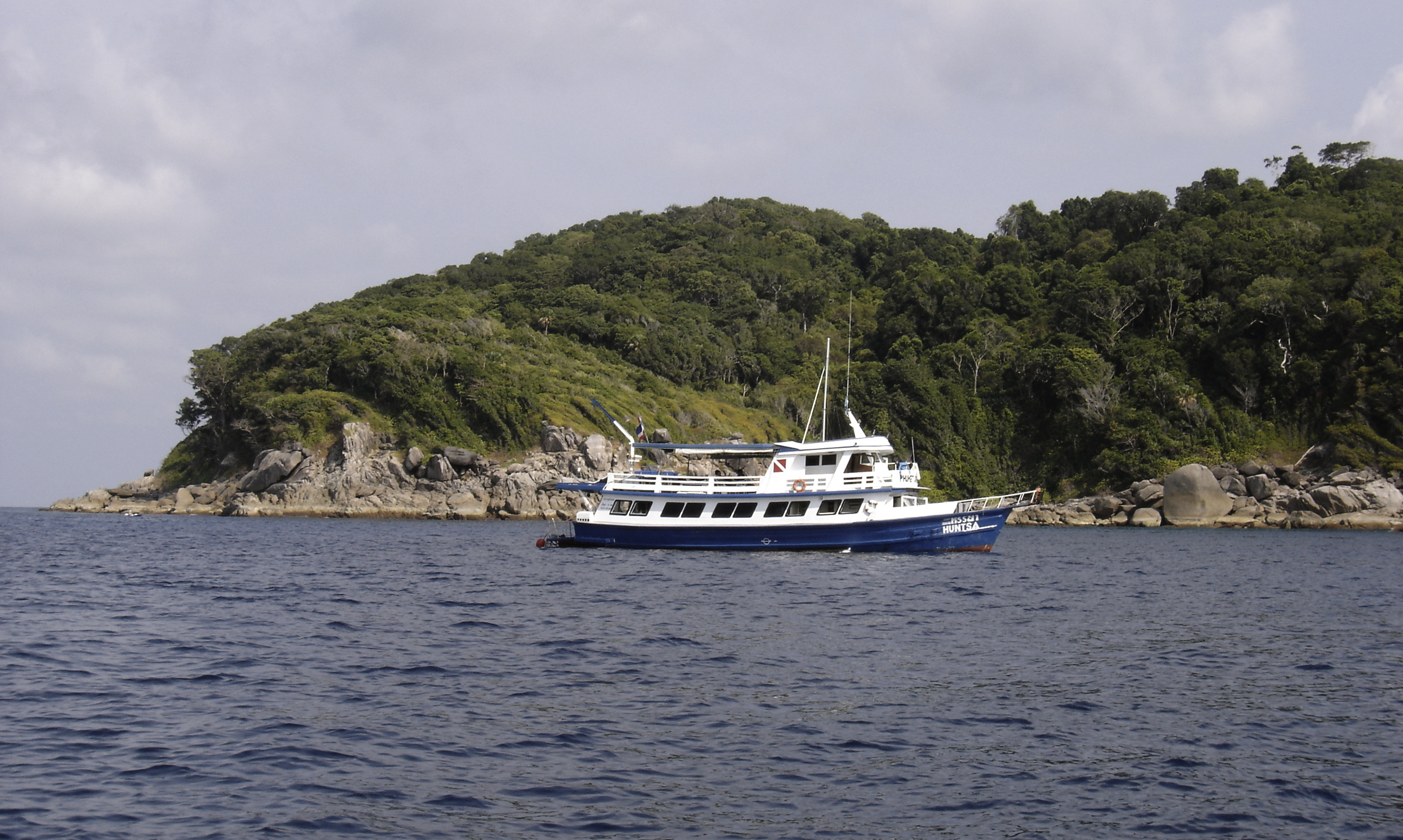 Photographer: HanumanIX - Liveaboard boat for diving tourists on the Similan Islands, Andaman Sea Thailand